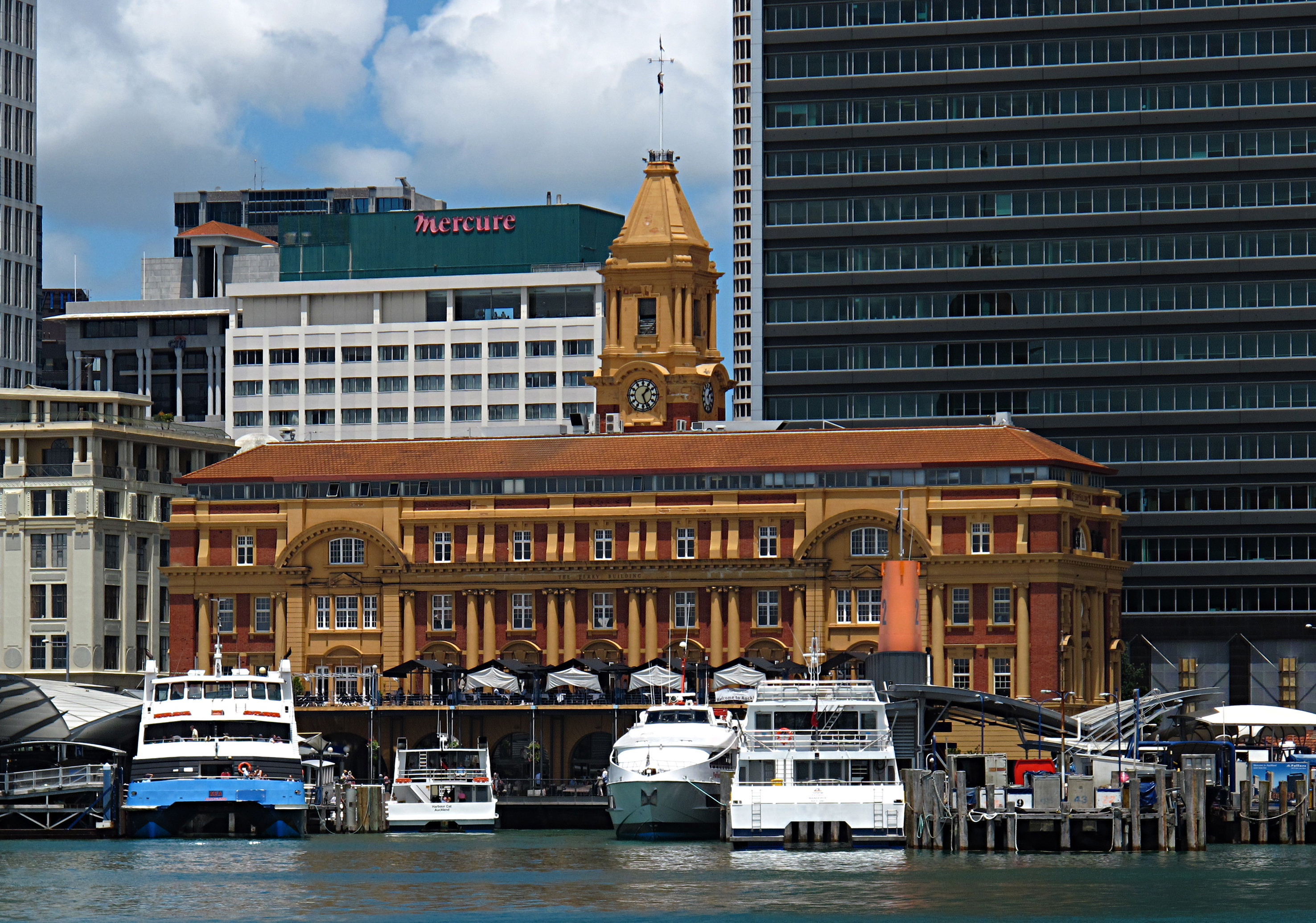 Auckland Ferry Terminal, New Zealand.